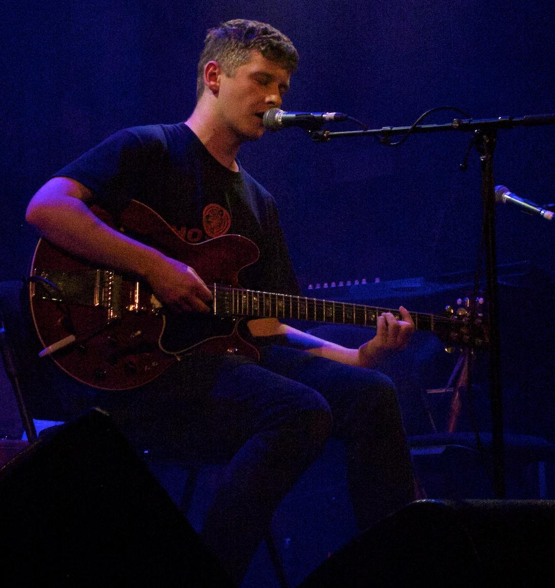 Bill Ryder-Jones live at Islington Assembly Hall, London 2006.